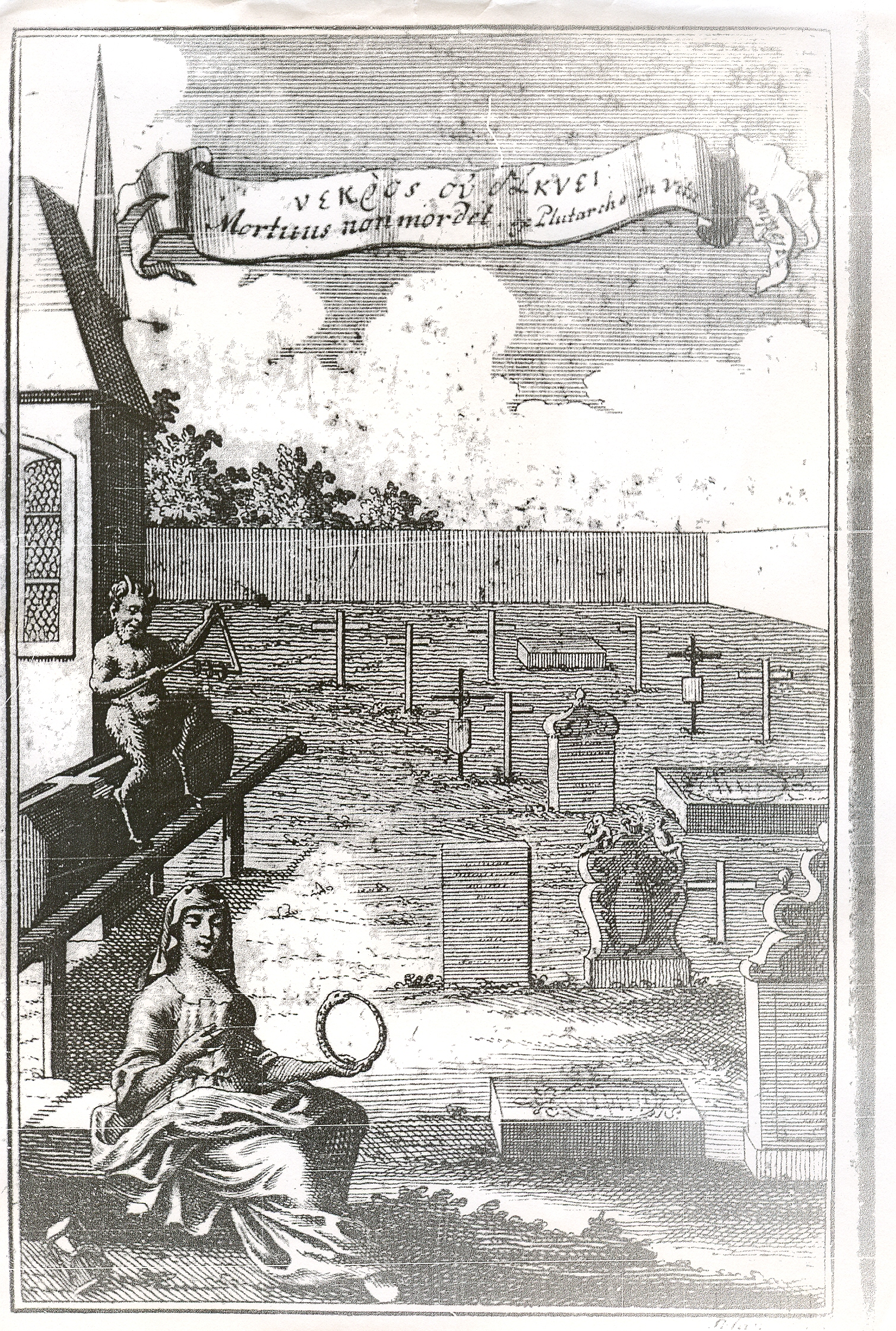 This is a scan of the document: Titel: Tractat von dem Kauen und Schmatzen der Todten in Gräbern, worin die wahre Beschaffenheit derer Hungarischen Vampyrs und Blut-Sauger gezeigt, auch alle von dieser Materie bißher zum Vorschein gekommene Schrifften recensiret werden